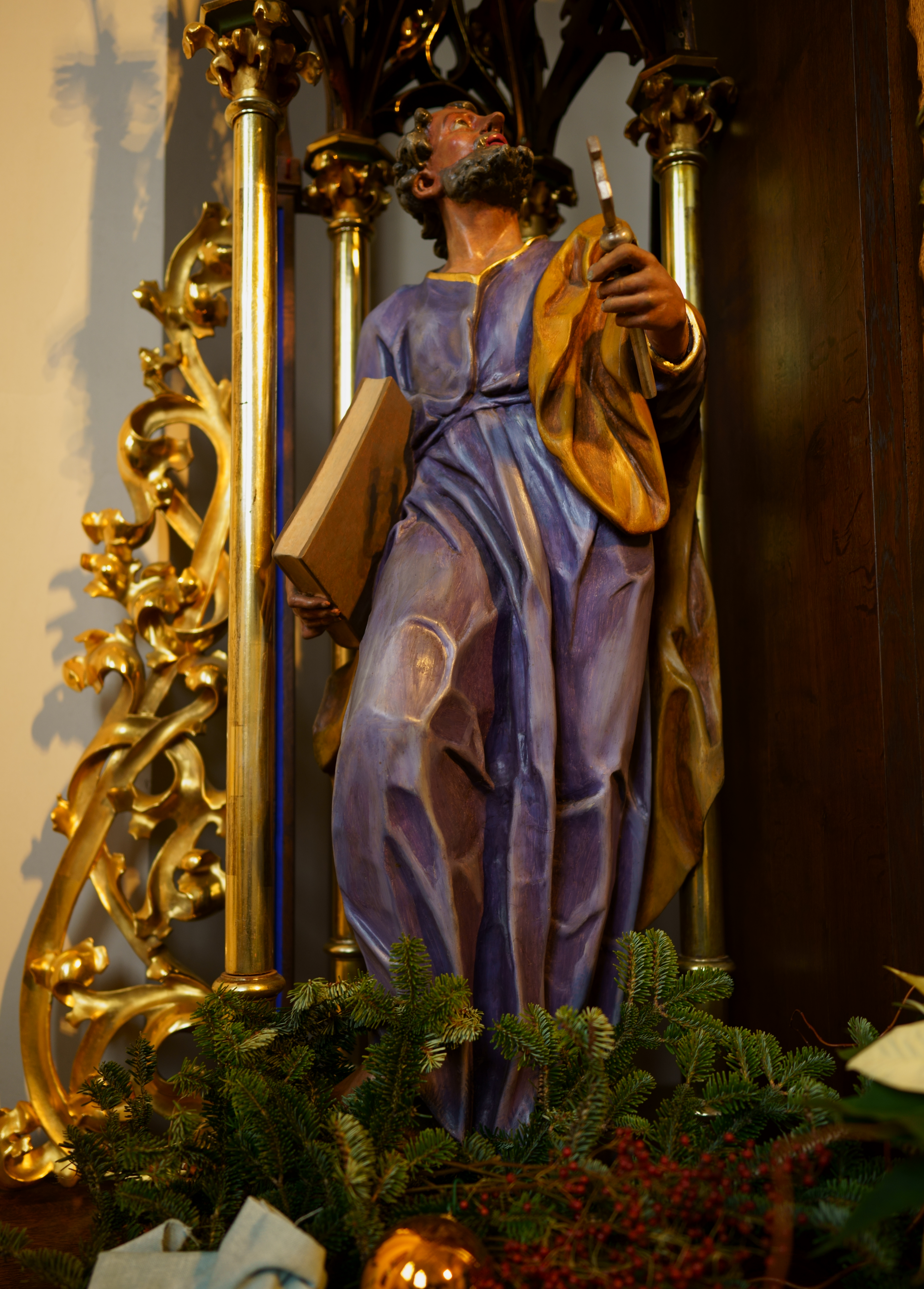 The church Józef statue of St. Peter. Altar of Our Lady of Częstochowa. Aauthor Wit Wisz